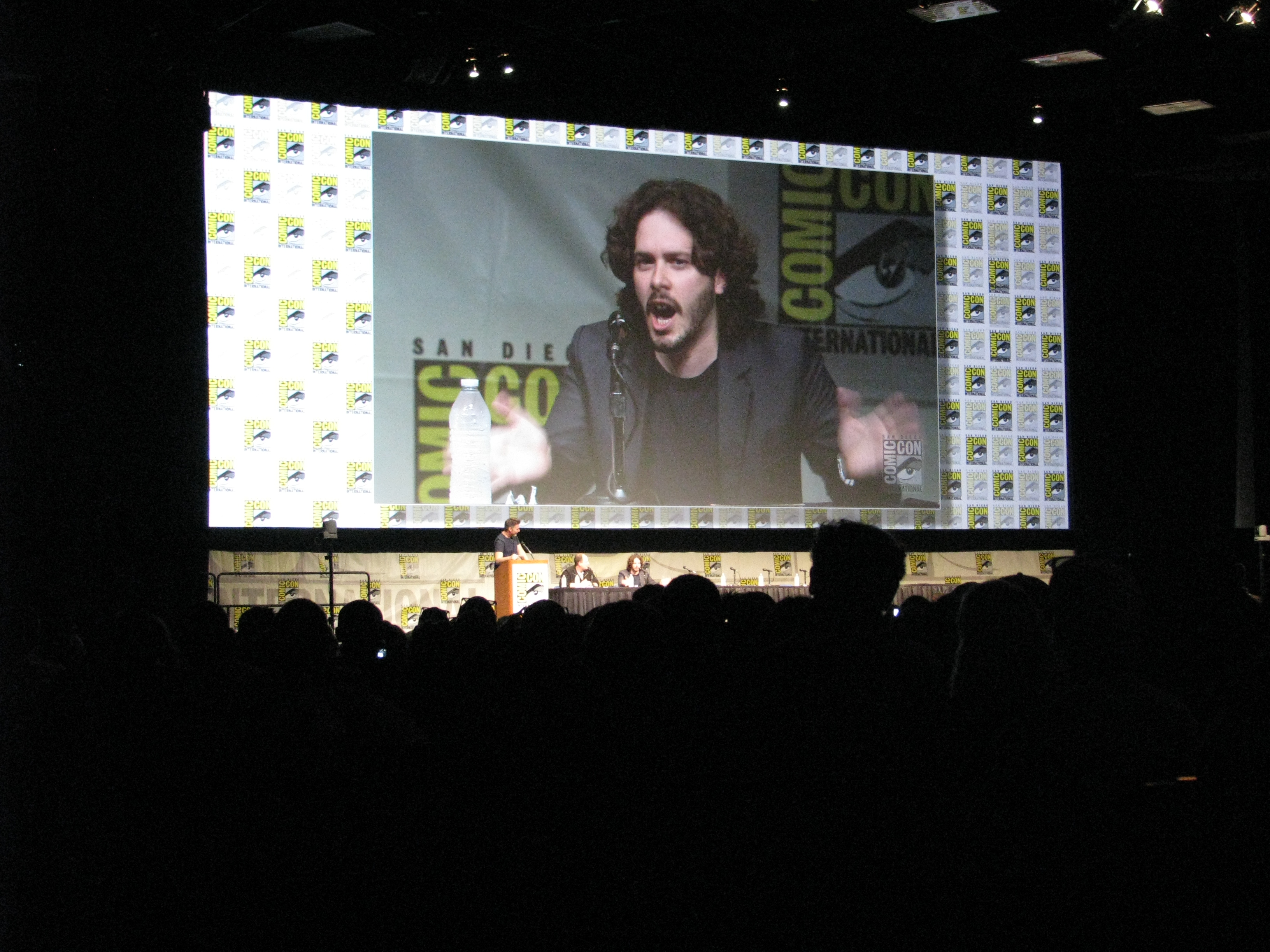 Edgar Wright for Ant-Man